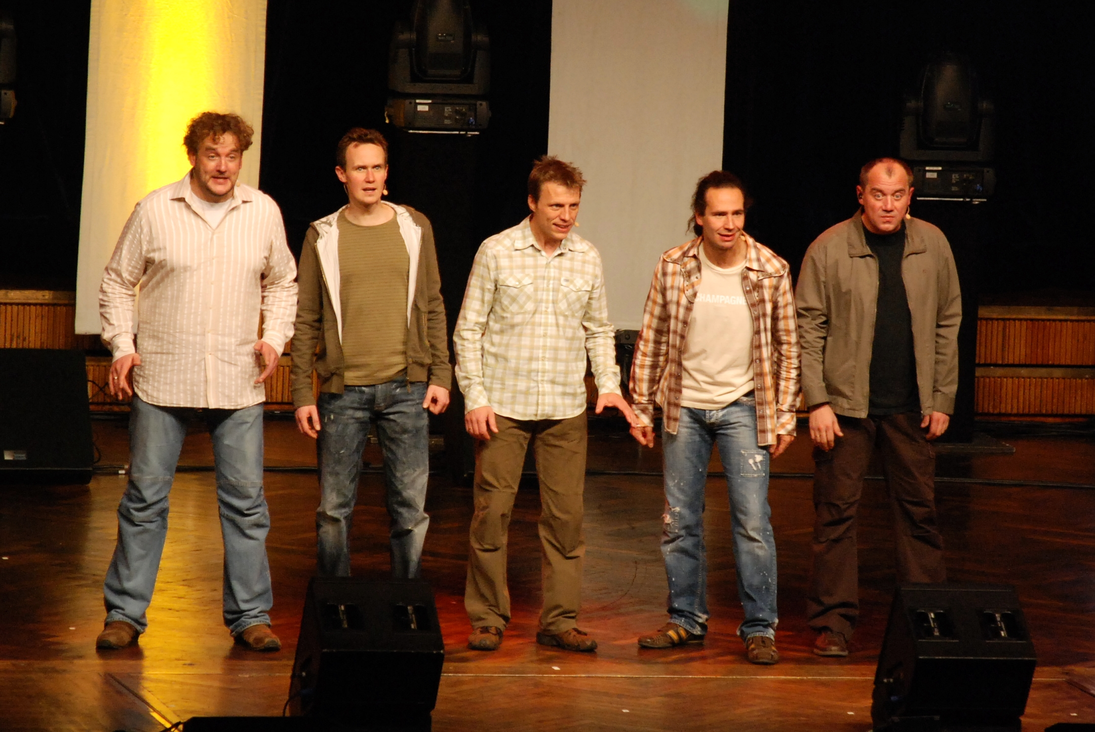 The german acapella group “Wise Guys” in concert singing “Buddy Biber”. From left to right: Daniel Dickopf (“Dän”), Marc Sahr (“Sari”), Clemens Tewinkel, Edzard Hüneke (“Eddi”) and Ferenc Husta.